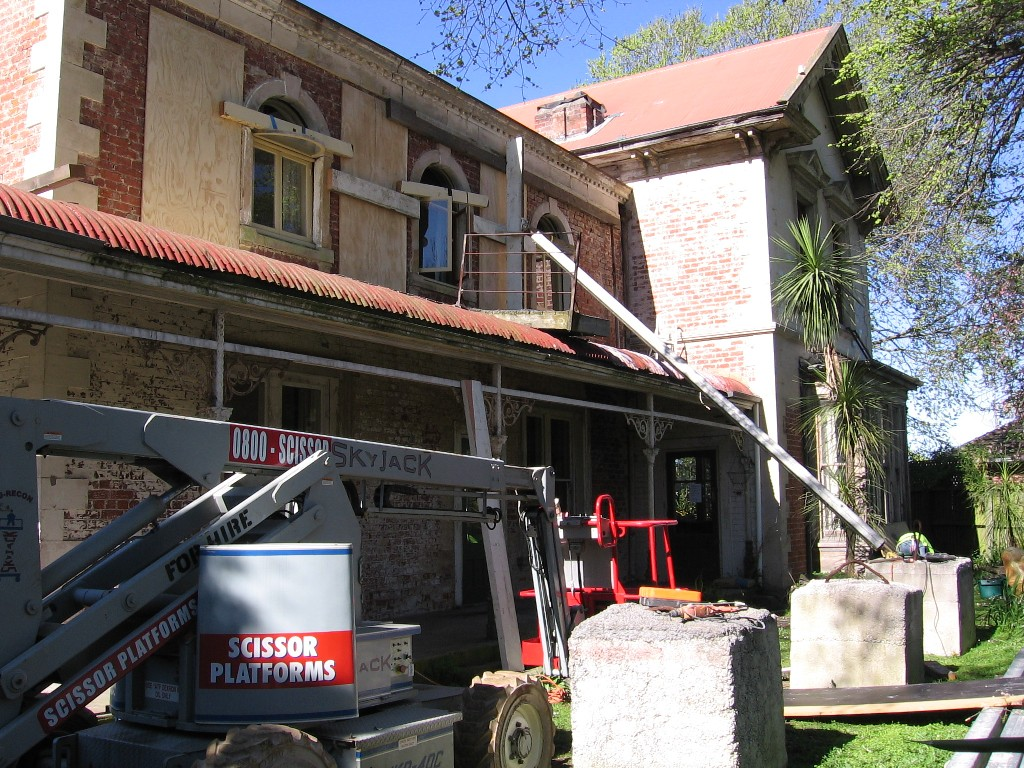 Bracing installed at Linwood House after the September 2010 earthquake.